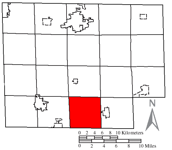 Made by the US Census and modified by myself